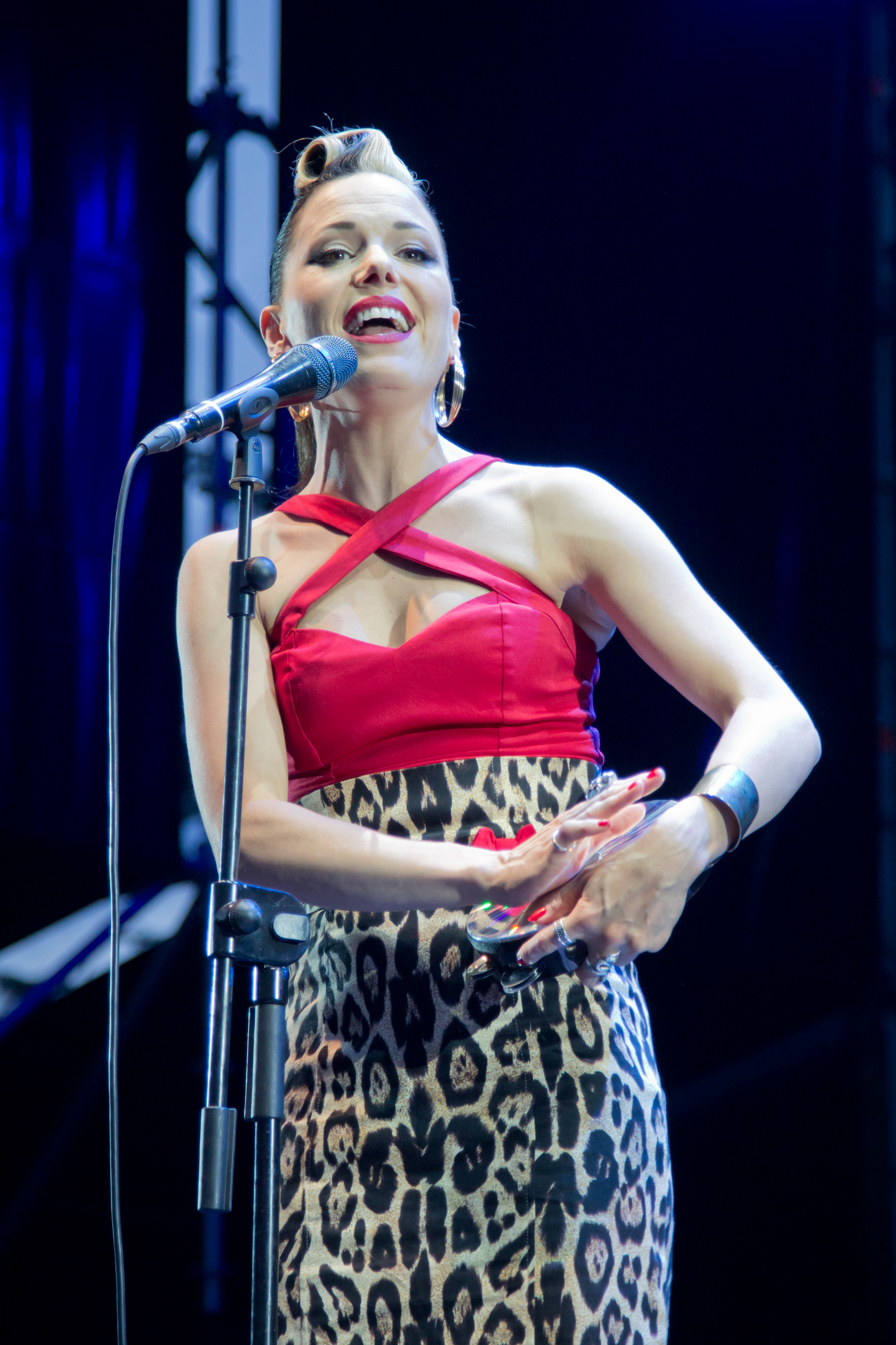 Imelda May at Madgarden Fest 2015, Madrid, Spain.